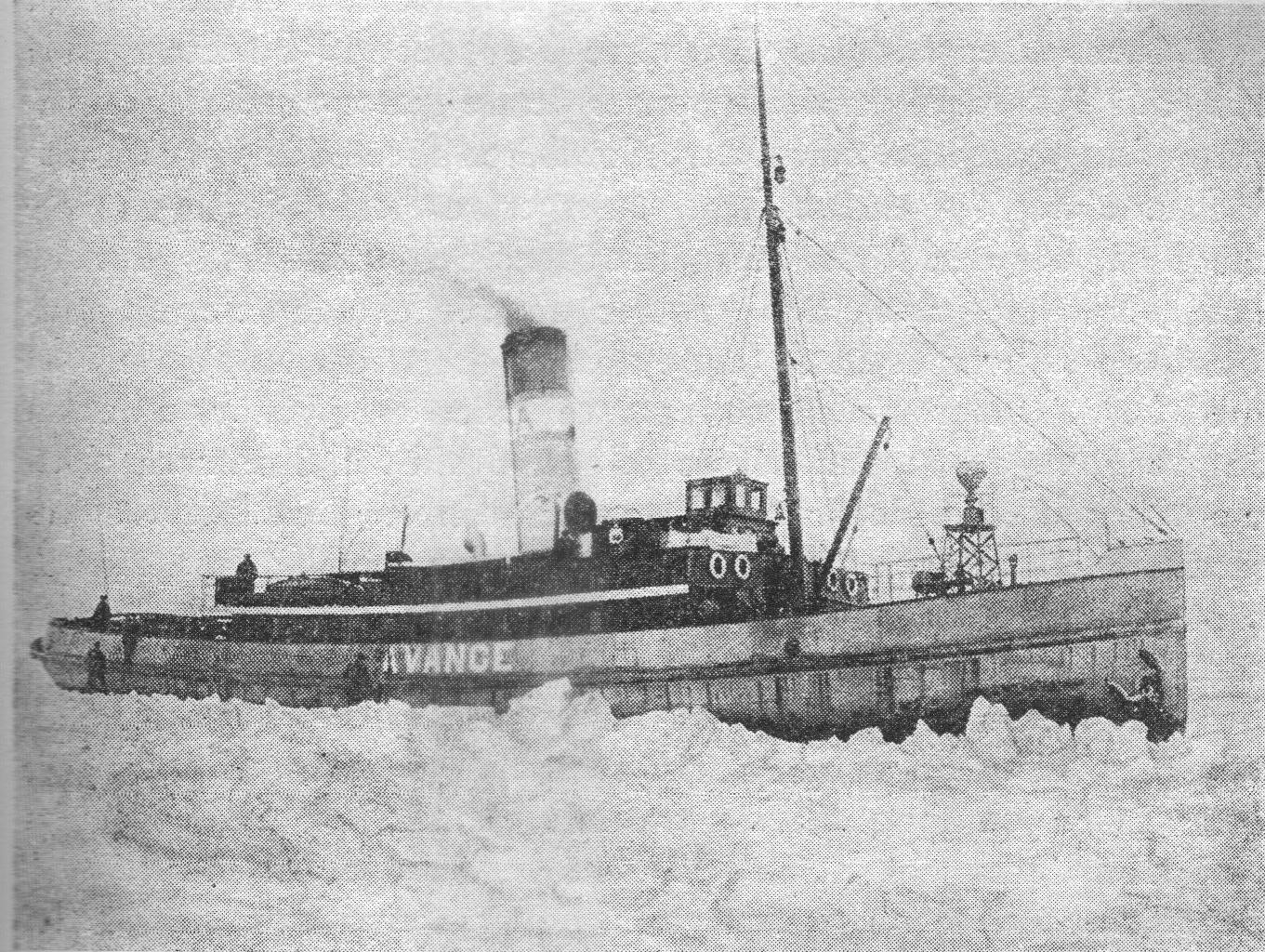 Finnish Icebreaker Apu, originally built as Avance in 1899